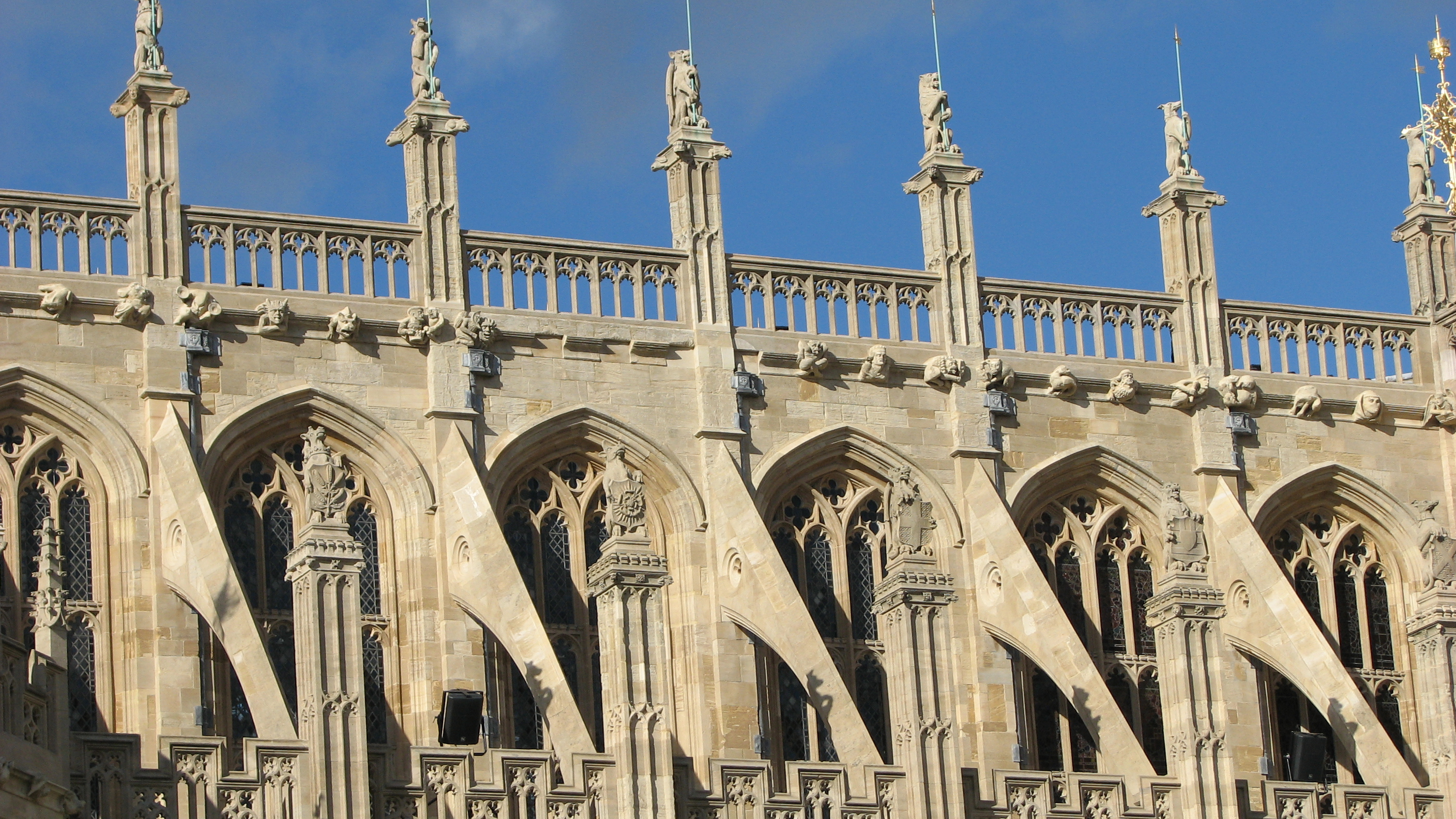 Windsor Castle, St George's Chapel